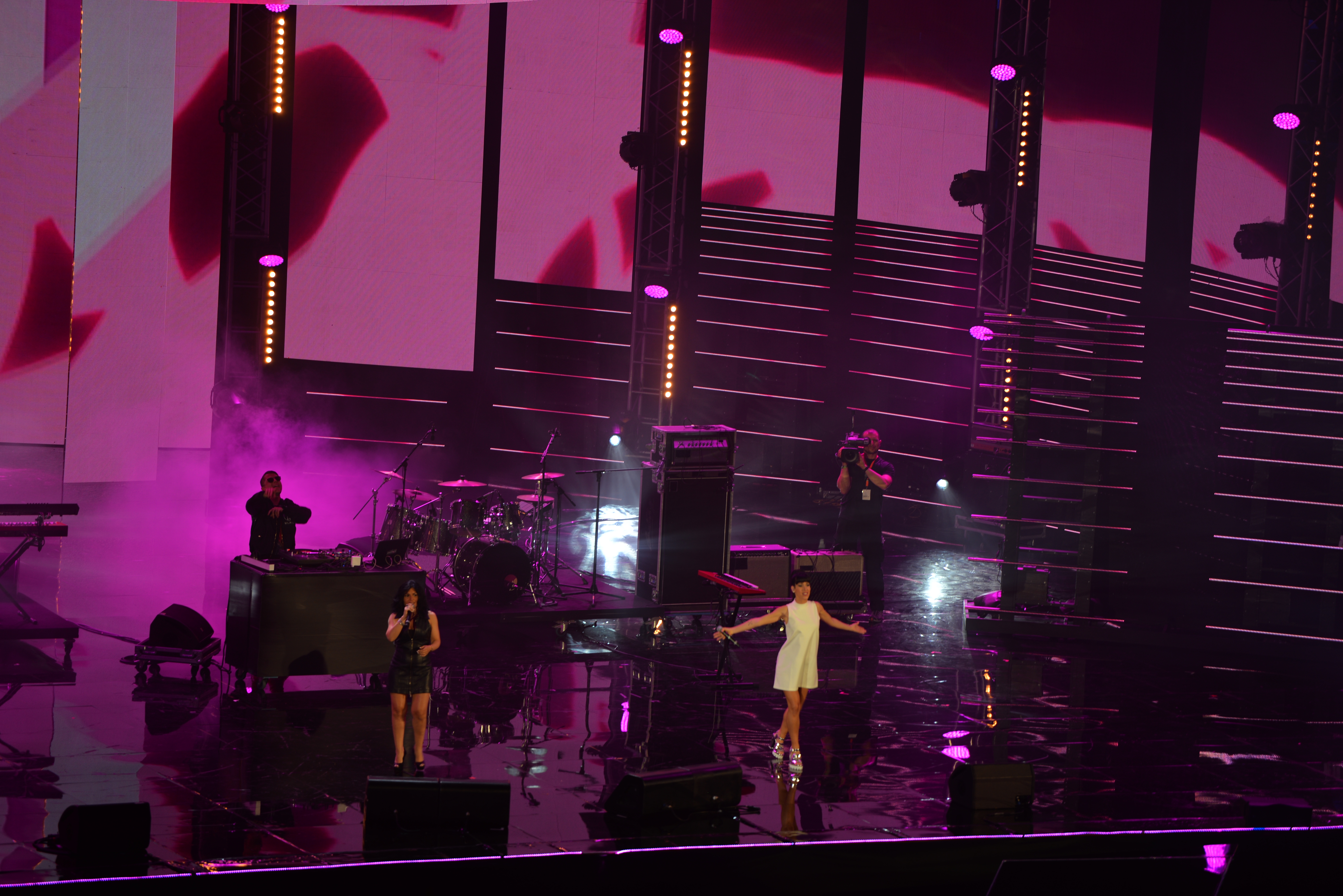 Baby K and Giusy Ferreri during the Wind Music Awards 2016 ceremony at Verona Arena